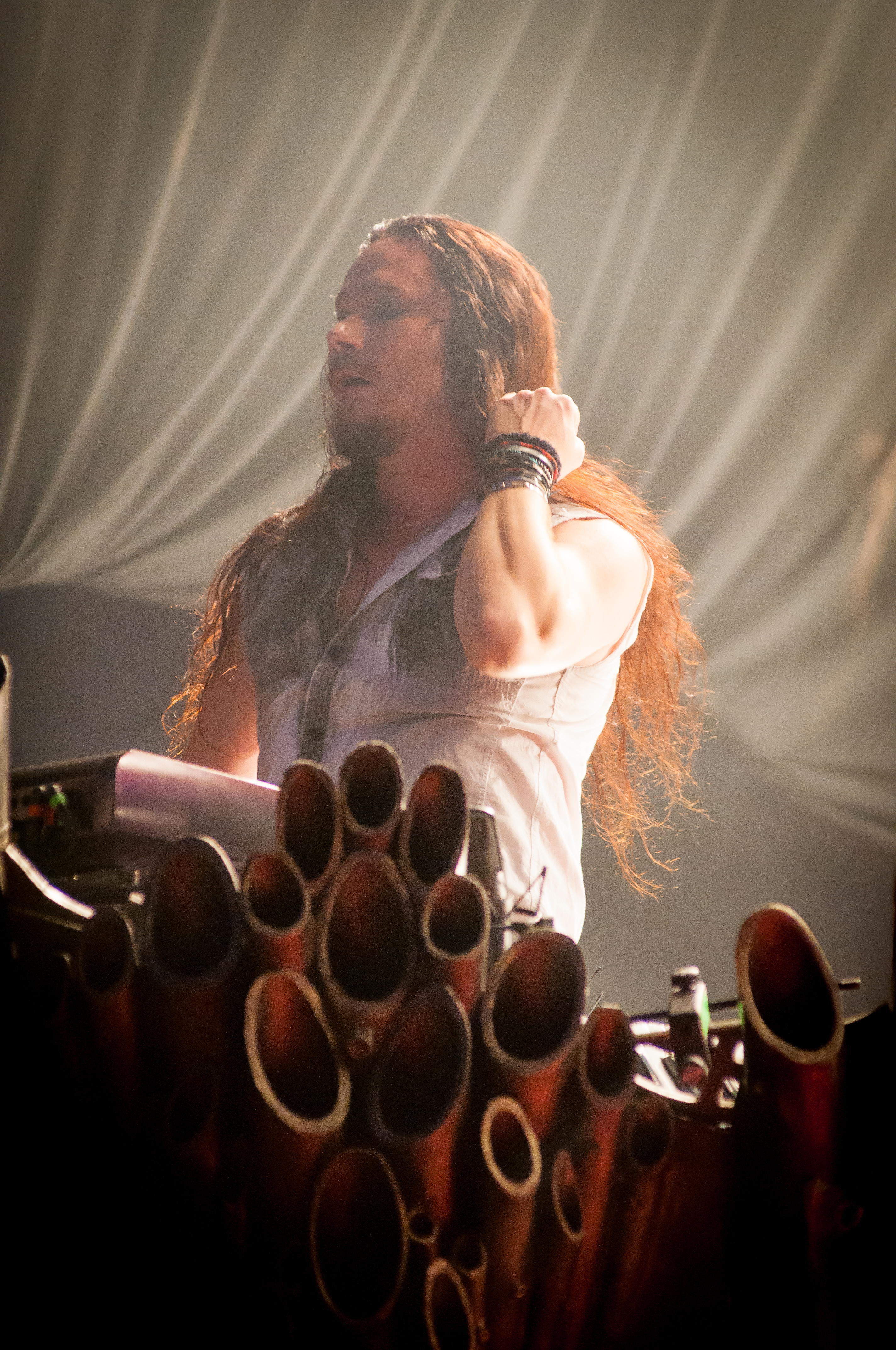 Finnish keyboardist and composer Tuomas Holopainen performing with Nightwish at the 2013 Ilosaarirock festival in Joensuu, Finland.